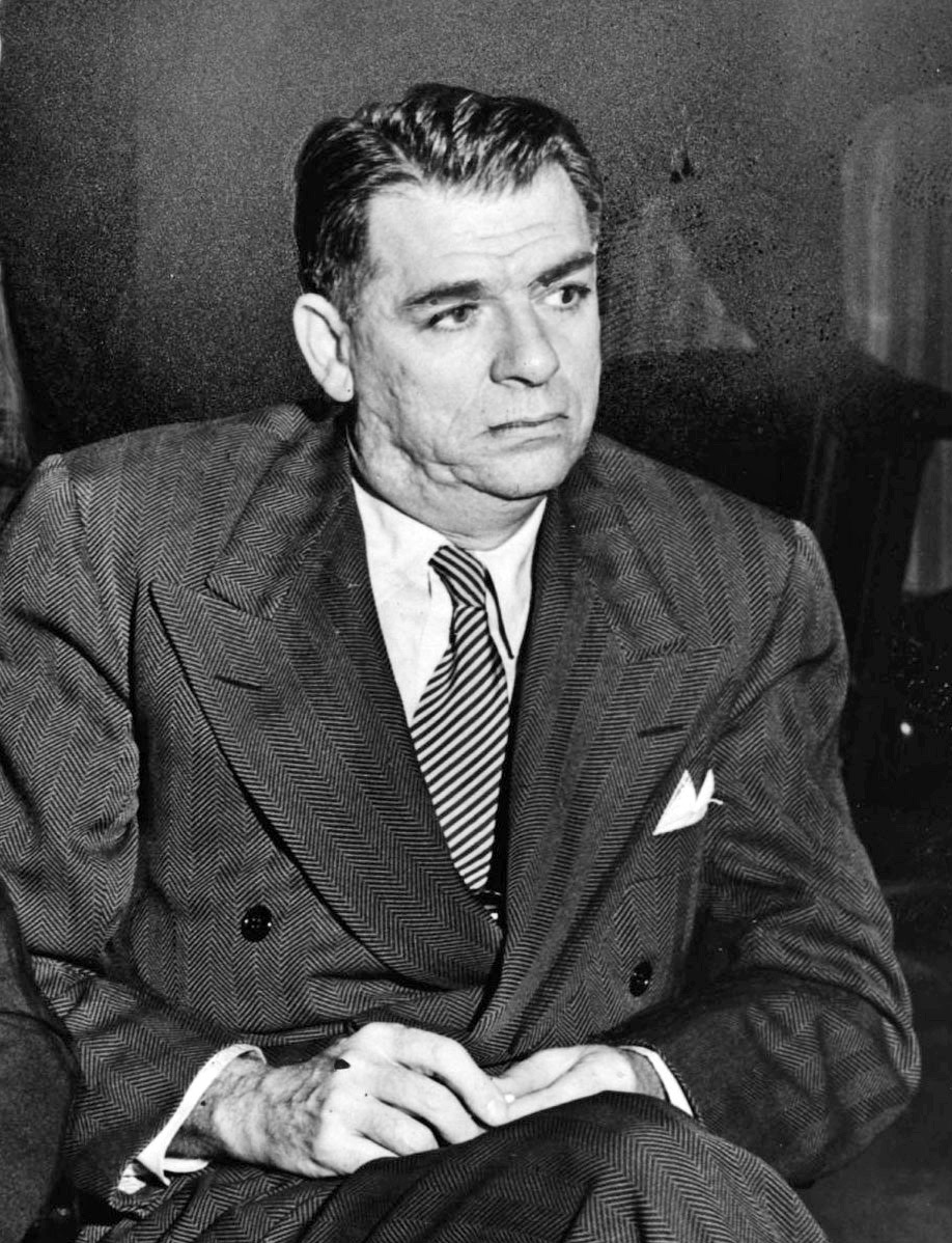 Richard Rodgers, Irving Berlin, Oscar Hammerstein II, and Helen Tamiris (back), watching hopefuls who are being auditioned on stage of the St. James Theatre